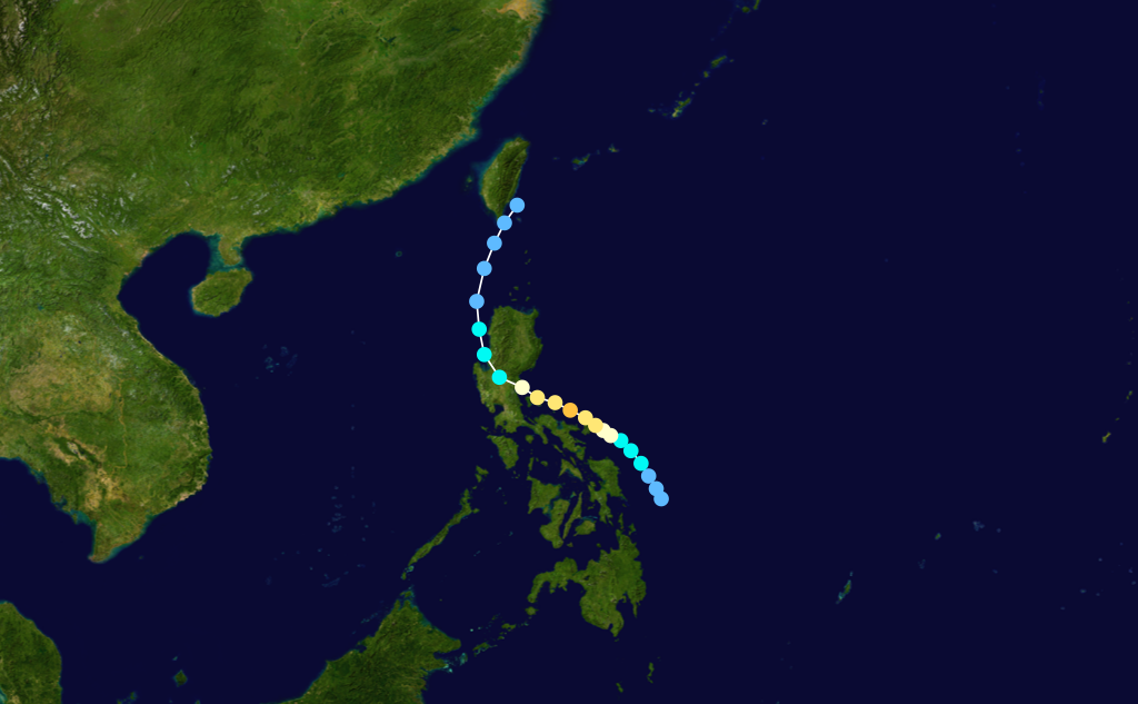 Typhoon Yunya (1991) track. Uses the color scheme from the Saffir-Simpson Hurricane Scale.